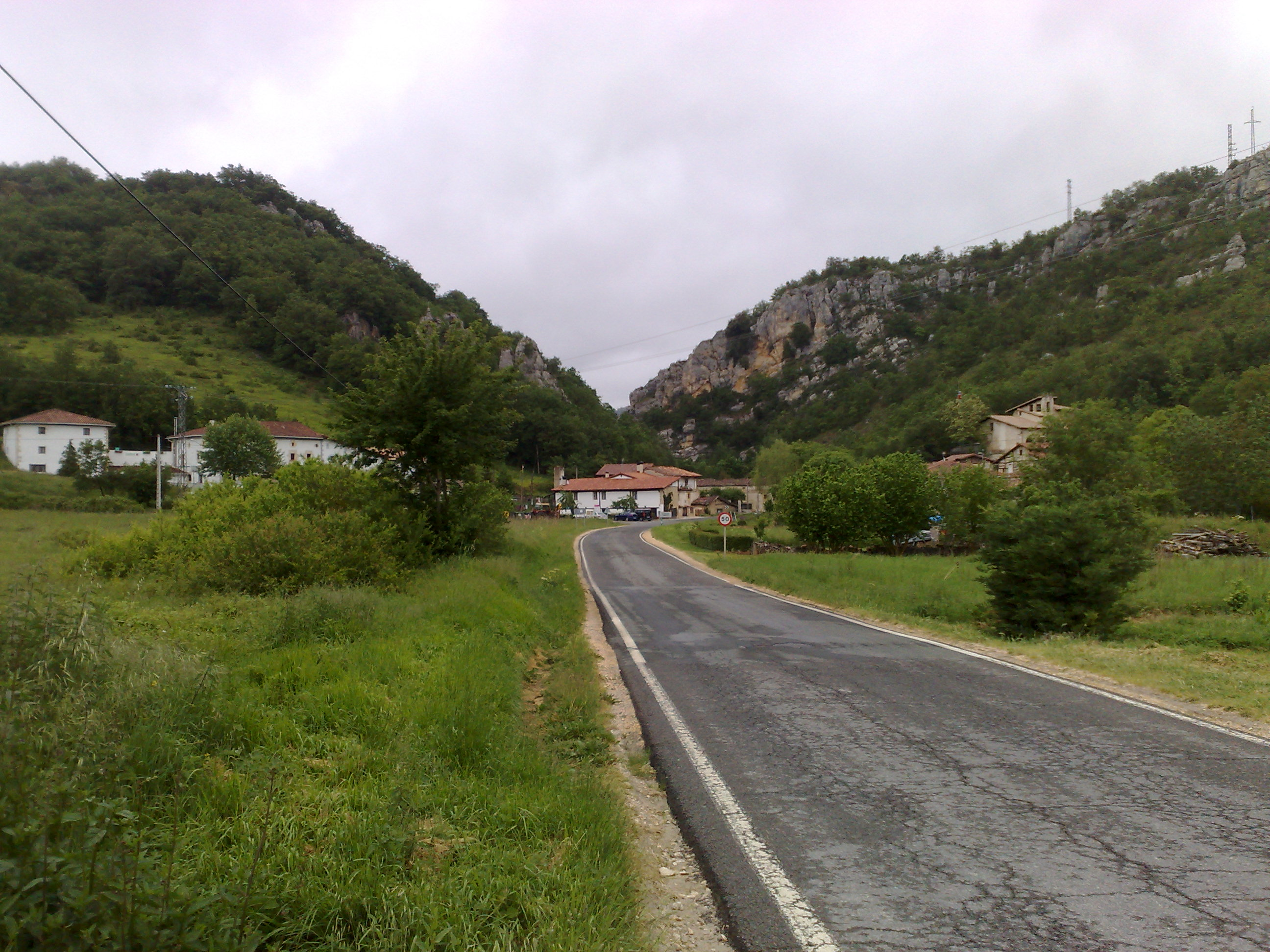 Overall view of Elortza taken from the Maeztu-Zekuiano road, Arraia-Maeztu, Araba, Basque Country.